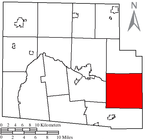 Made by the US Census and modified by myself to highlight the township